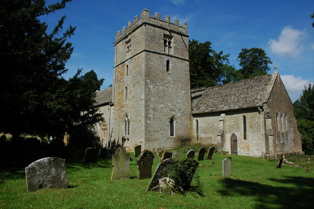 Oddington Church St Nicholas's church at Oddington is situated a distance from Lower Oddington. The church dates back to the 12th century, the tower dates from the 13th century. Originally the church belonged to St Peter's Abbey at Gloucester, but in 1157 the church was transferred to the See of York and in the 13th century Oddington was the residence of the Archbishop of York.